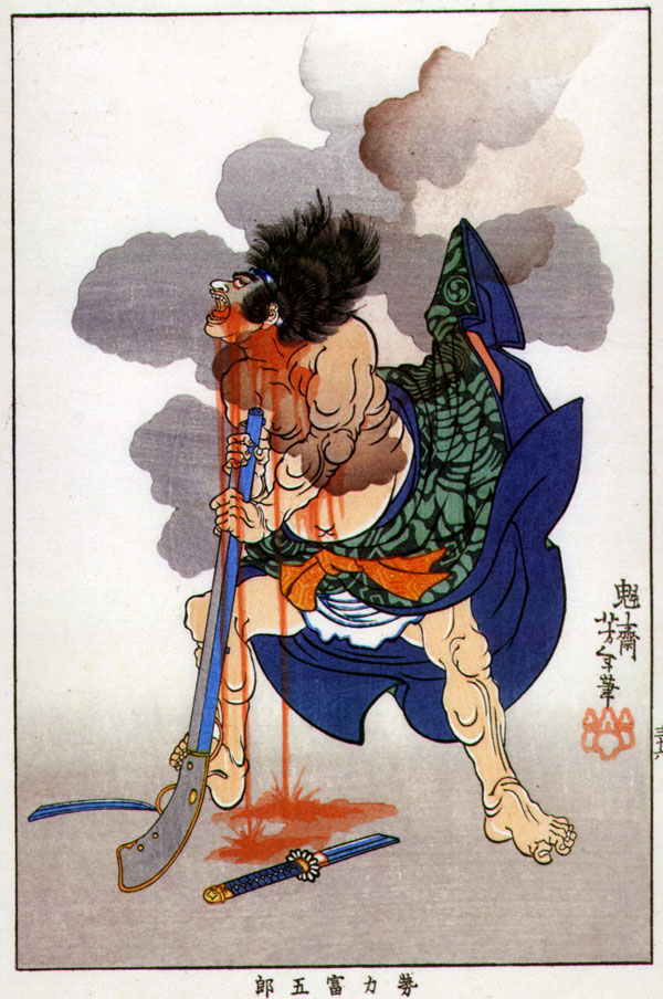 Tsukioka Yoshitoshi print of Tomigorô